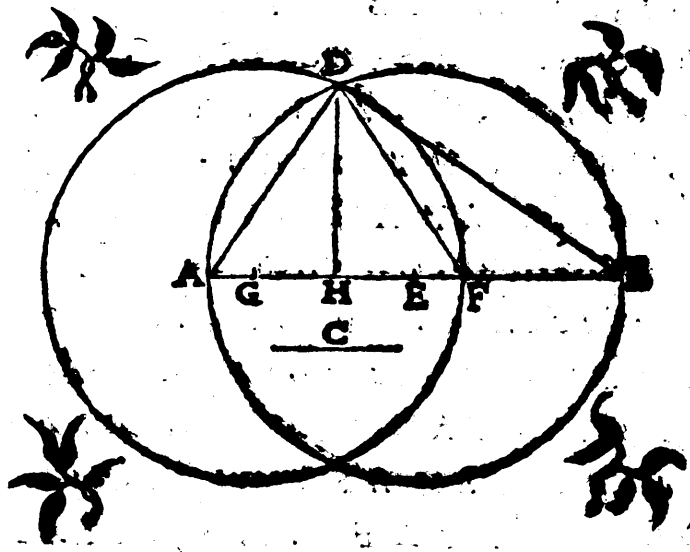 Images retailed from Muzio Oddi (1569-1639), Fabrica et uso del compasso polimetro, Milan 1633 (vesica piscis circles)